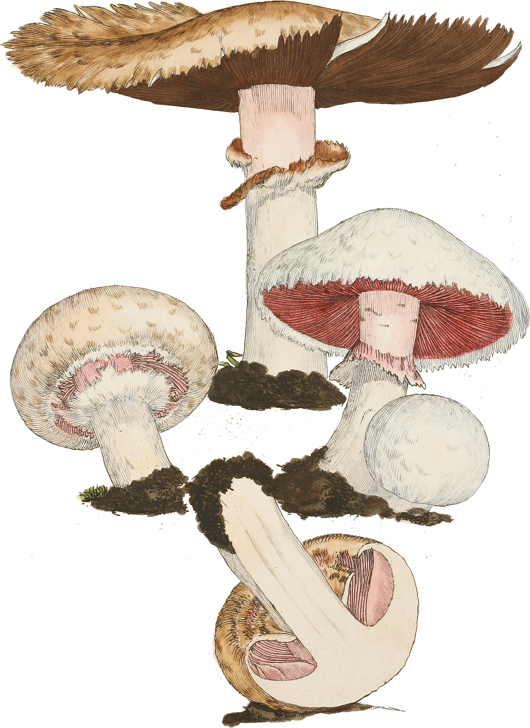 Plate: Field Mushroom (Agaricus campestris)